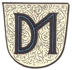 Proposal for a coat of Arms from 1956 for the village Messenhausen, nowadays part of the city Rödermark